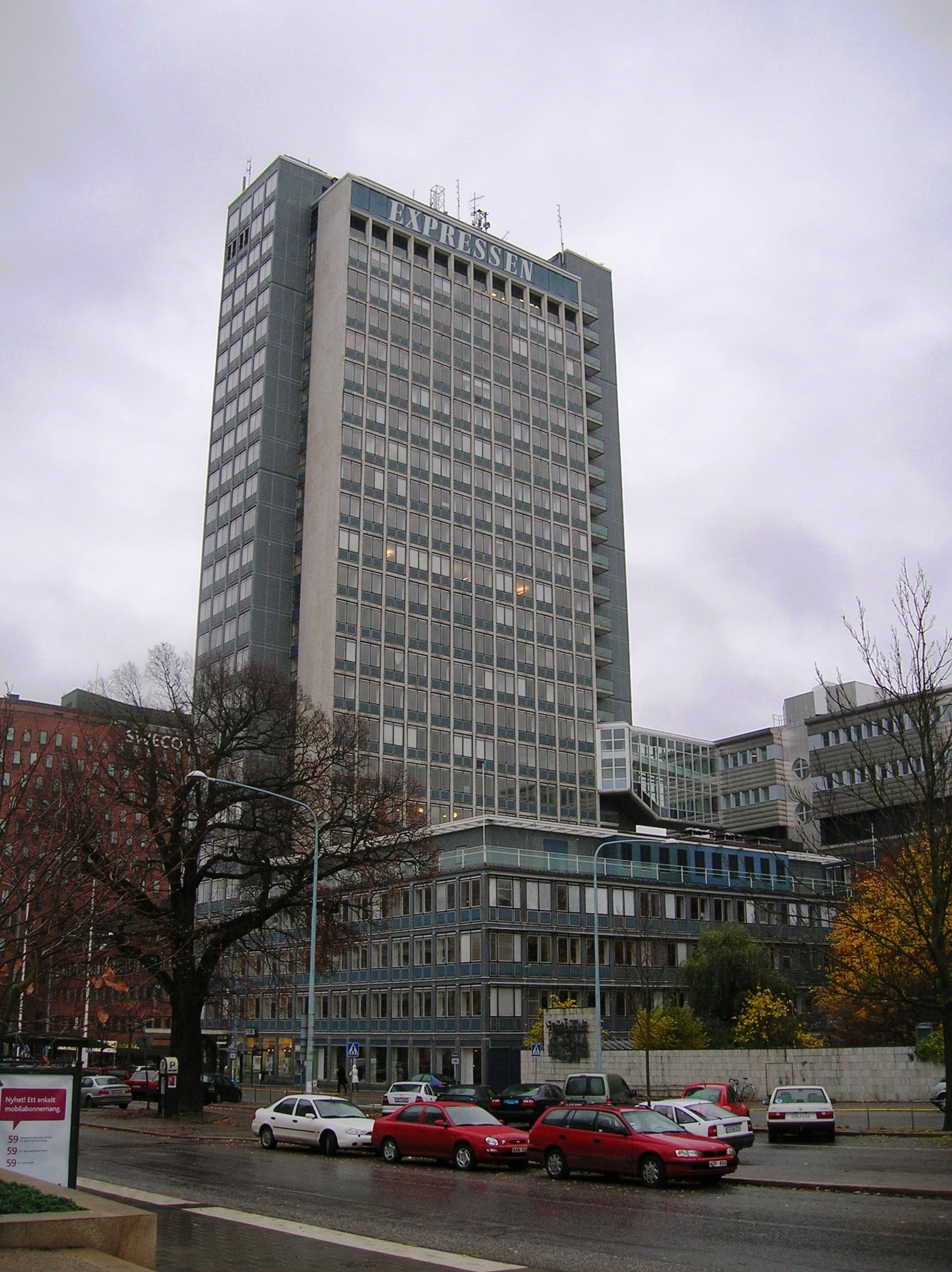 The DN building (aka DN-skrapan in Swedish), the former site of Dagens Nyheter, Swedens biggest daily newspaper, in Marieberg, Stockholm municipality, Stockholm county, Sweden